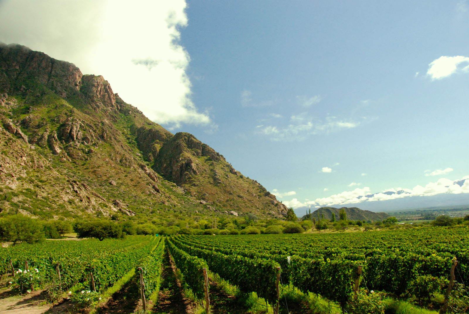 A winery near Cafayate, Salta Province (Argentina).